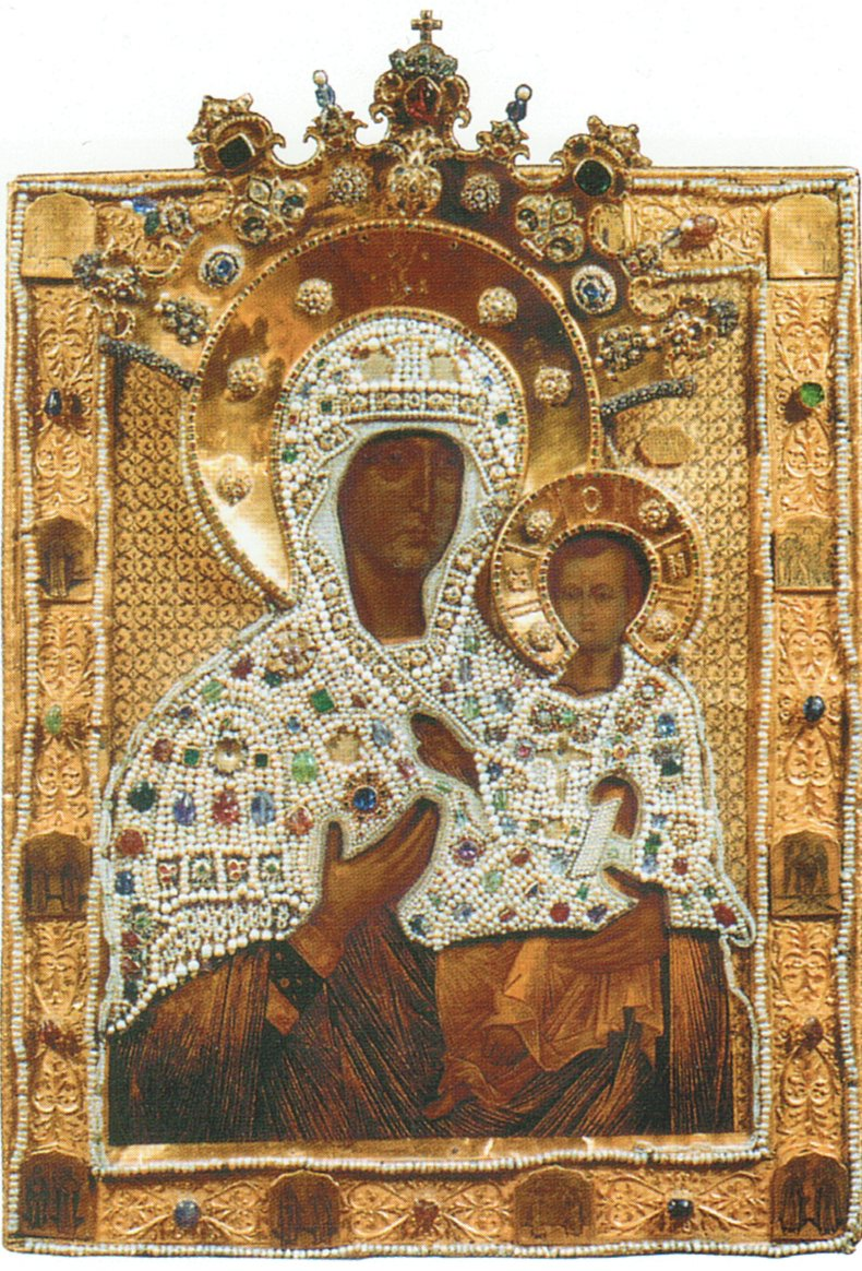 Hodegetria - Moscow - 1456